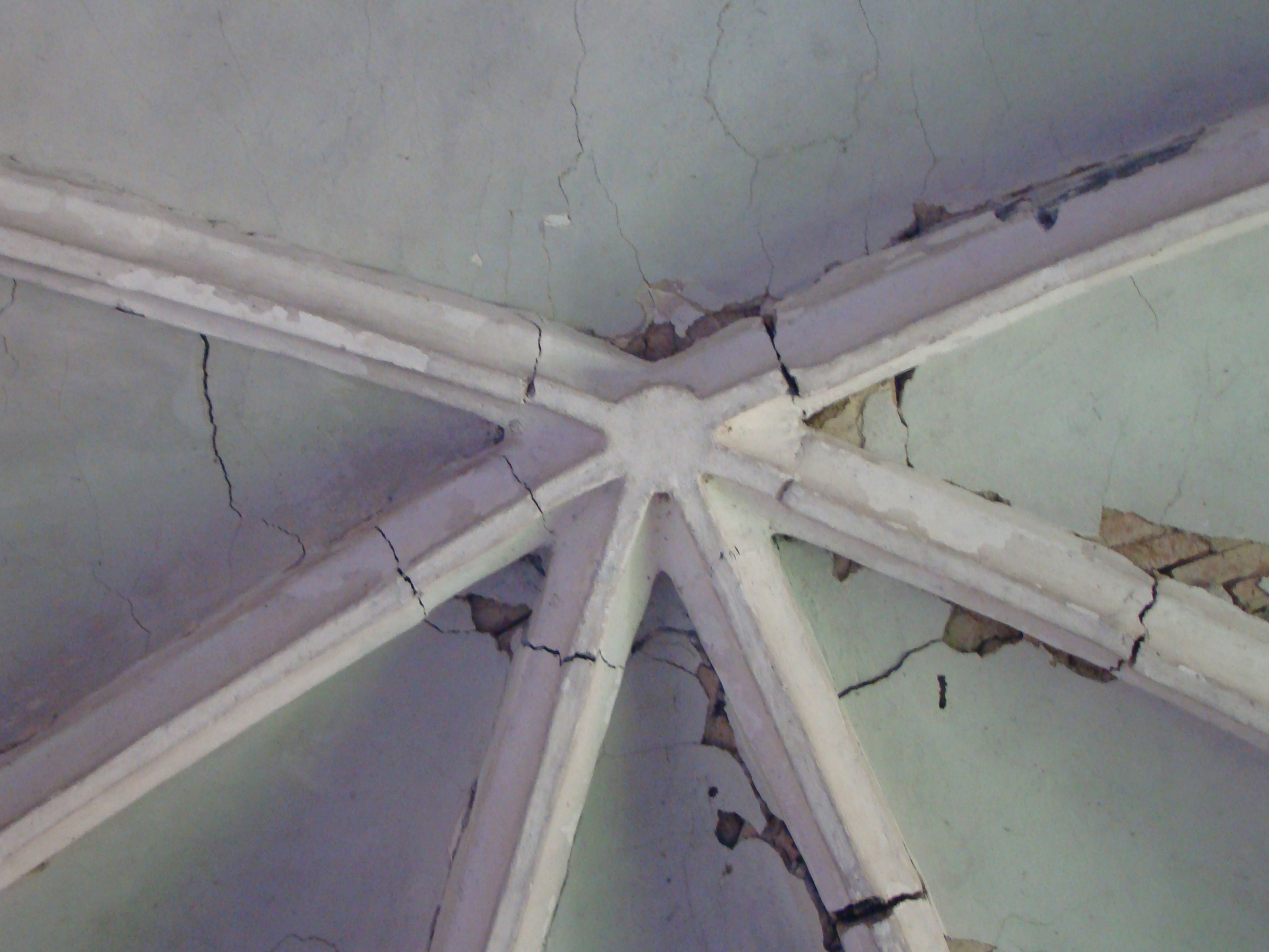 Lutheran church in Vermeș, Bistrița-Năsăud county, Romania